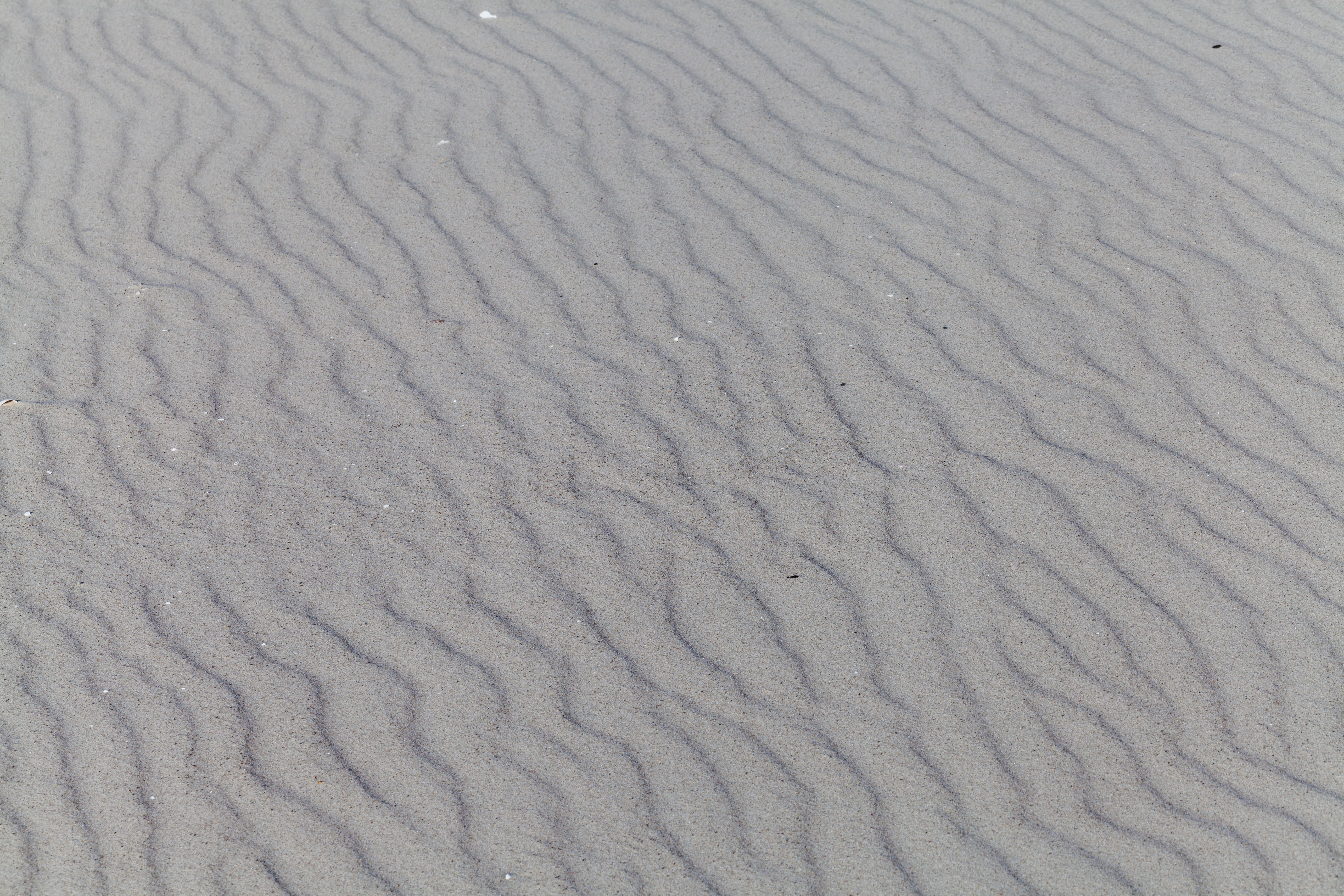 Jurata beach, Hel Peninsula, Poland